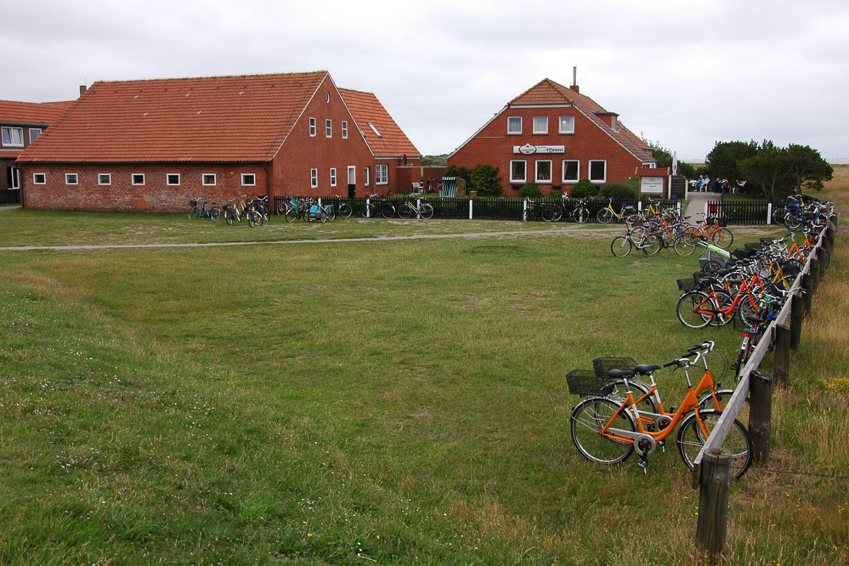 Meierei Langeoog, west side